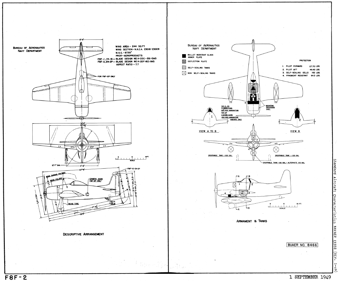 U.S. Navy Bureau of Aeronautics line darwings for the Grumman F8F-2 Bearcat fighter.